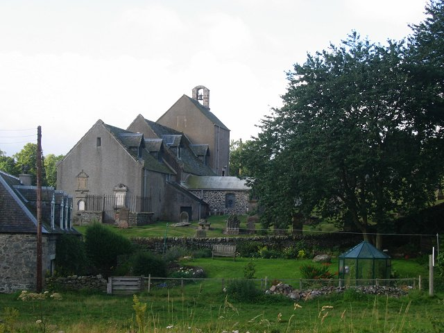 Stobo Kirk. Parts date back to the 12th century. View from across the Easton Burn with some houses from the scattered village of Stobo.